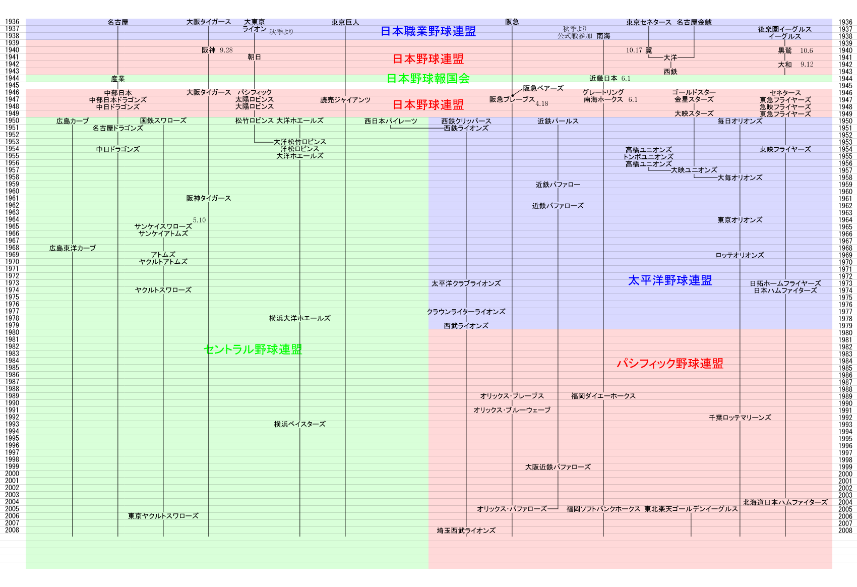 history of npb